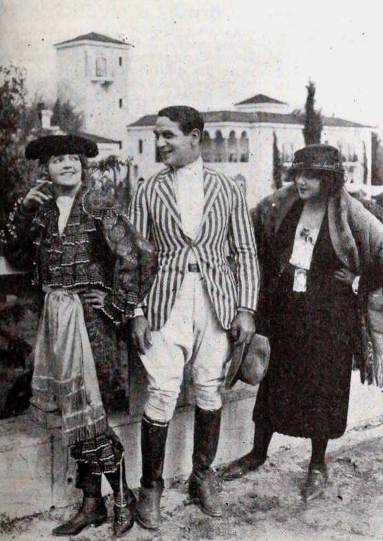 Eileen Sedgwick, dressed in the garb of a toreador, greets Eddie Polo on his trip from Cuba and his daughter, the actress Malvina Polo, on page 77 of the May 7, 1921 Exhibitors Herald.